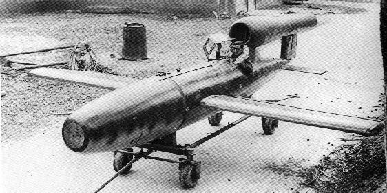 A Fieseler Fi 103R Reichenberg piloted missile, assembled by the United States Navy Technical Mission - Europe from parts captured by the U.S. Army at the Karlwitz munitions depot for analysis. Note that the warhead casing of this aircraft is believed to be a plywood mockup instead of an operationally-representative item.